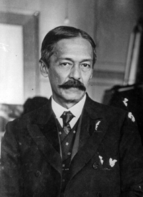 Benito Legarda, Resident Commissioner of the Philippines in the U.S. House of Representatives